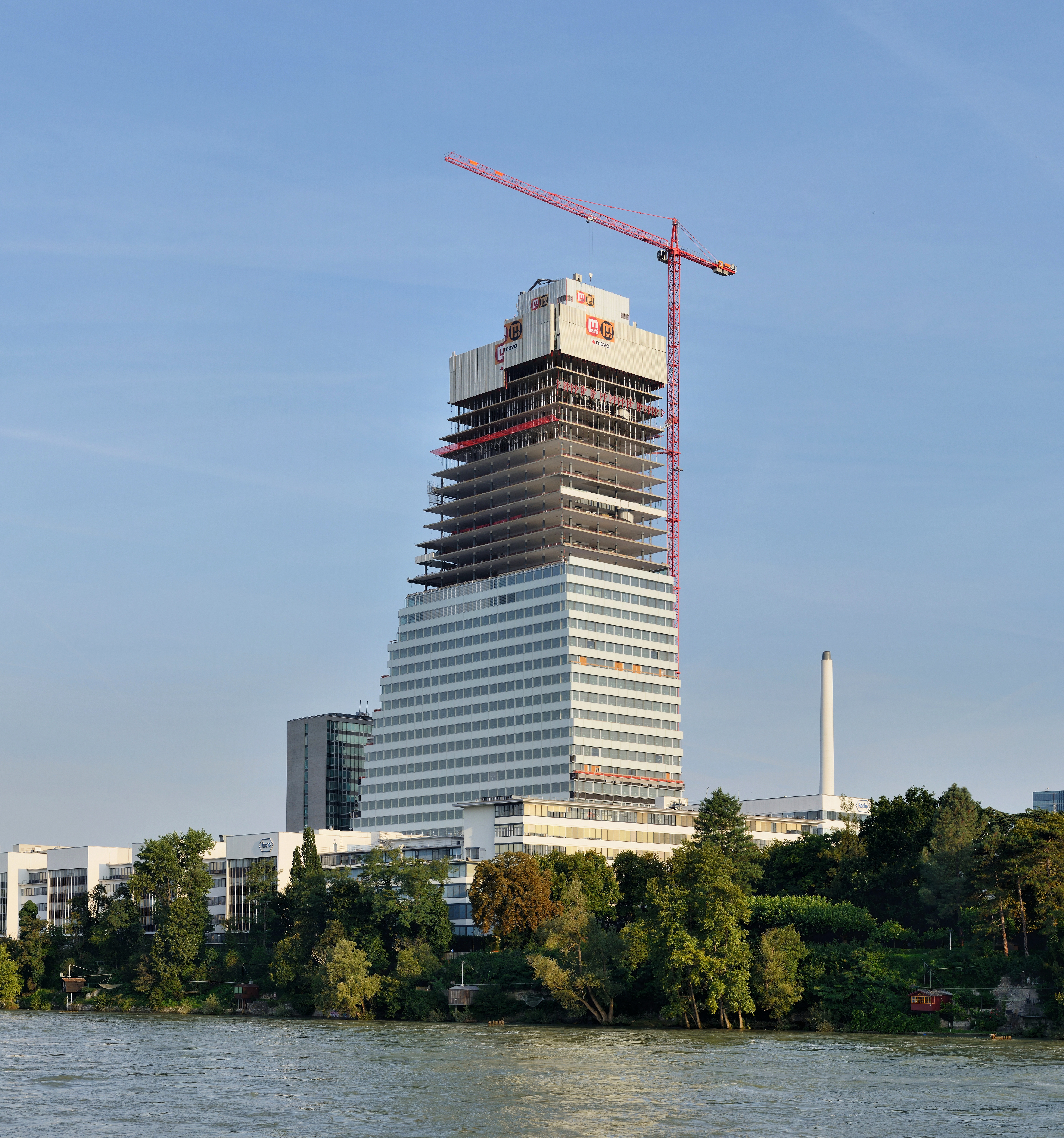 Basel: Roche Tower during construction on 6th August 2014